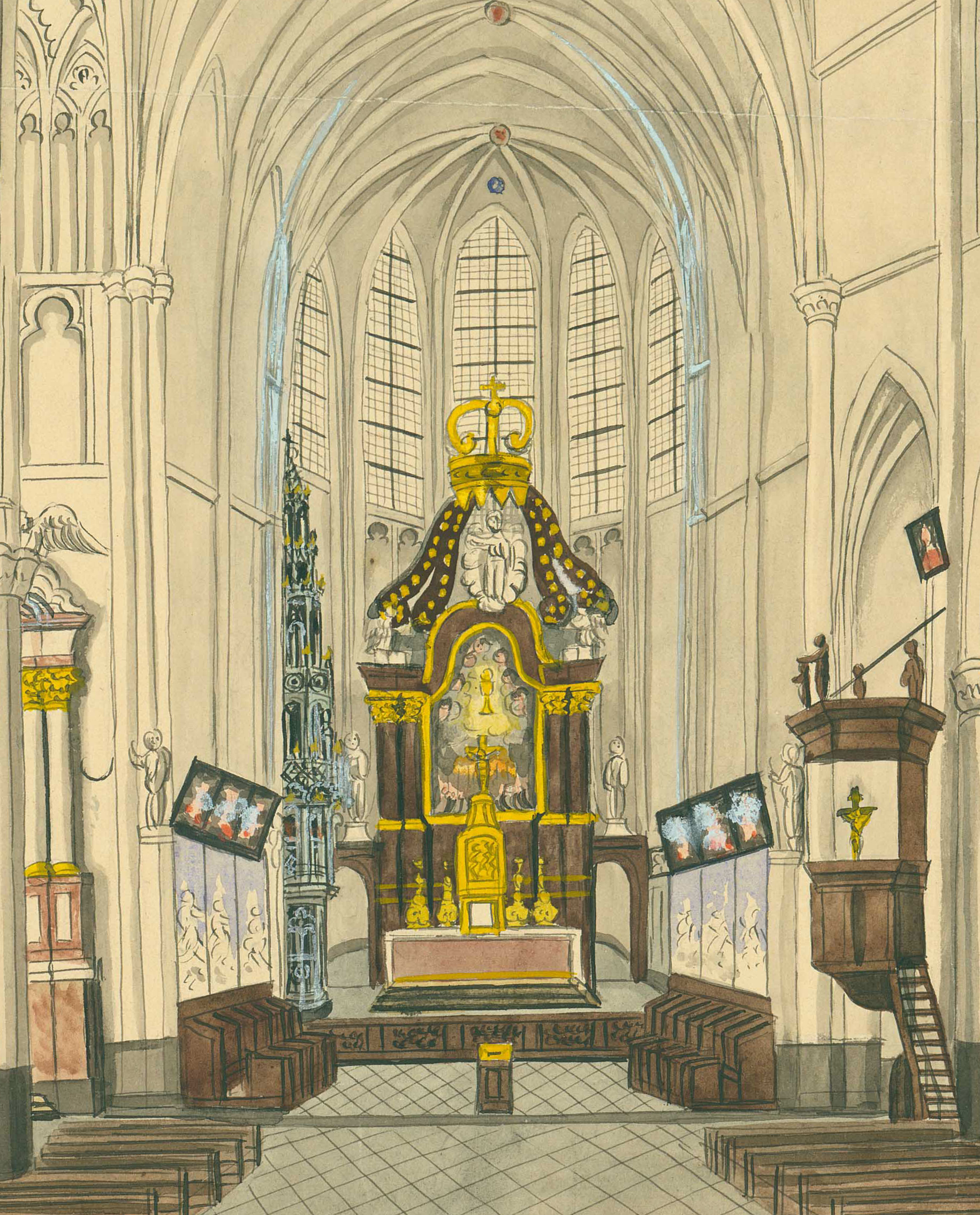 Drawing of the interior of the parish church of the Holy Sacrament and St Bartholomew in Meerssen, Netherlands. The Gothic church is nowadays known as the Basilica of Meerssen. This drawing by Philippe van Gulpen dates from 1839, before the restoration of the church.